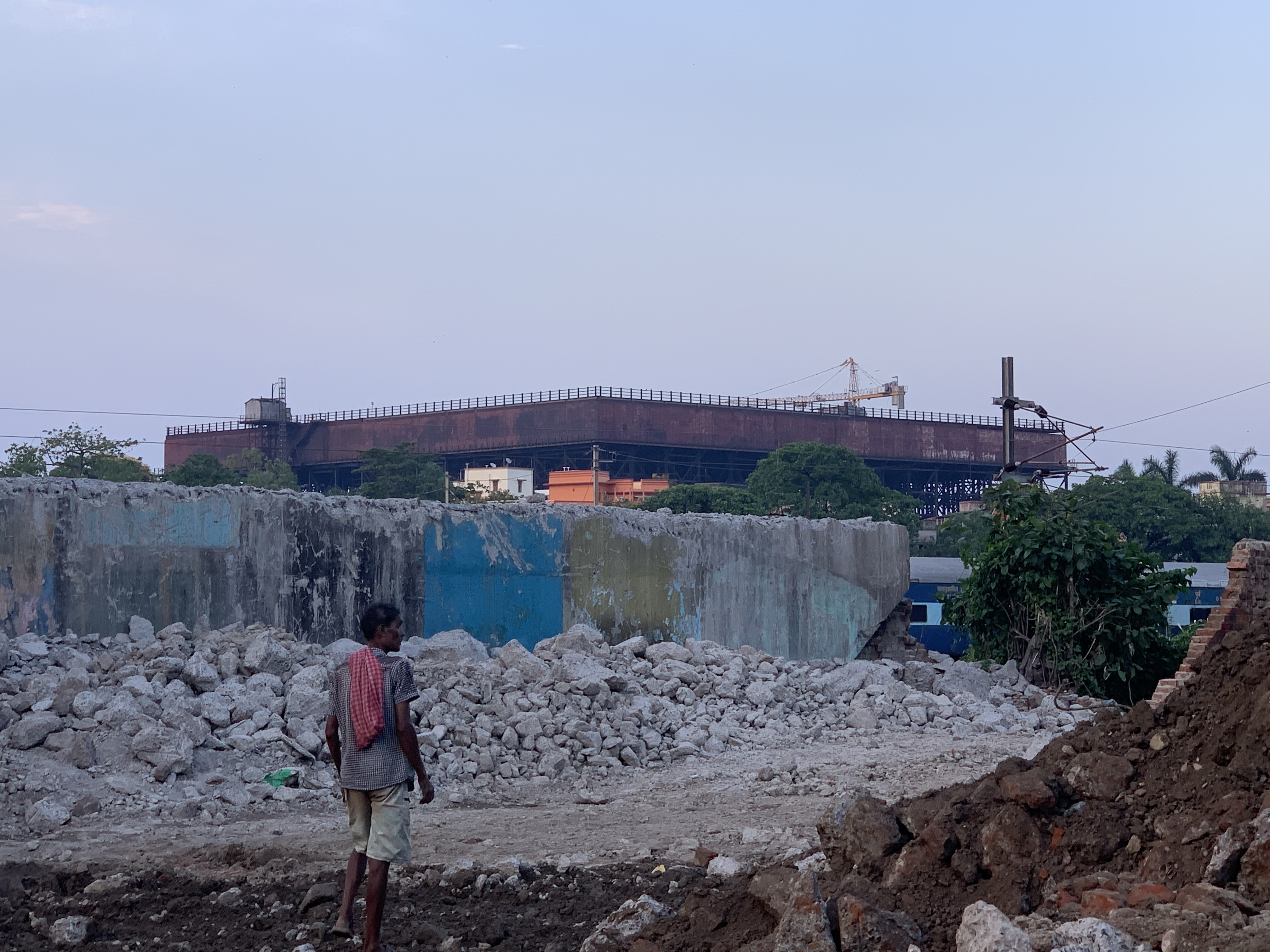 View of Tala water tank from Tala Bridge aka Hemanta Setu, this Photographs has been taken during demolition of this bridge under Corona crisis in Kolkata, West Bengal, India.